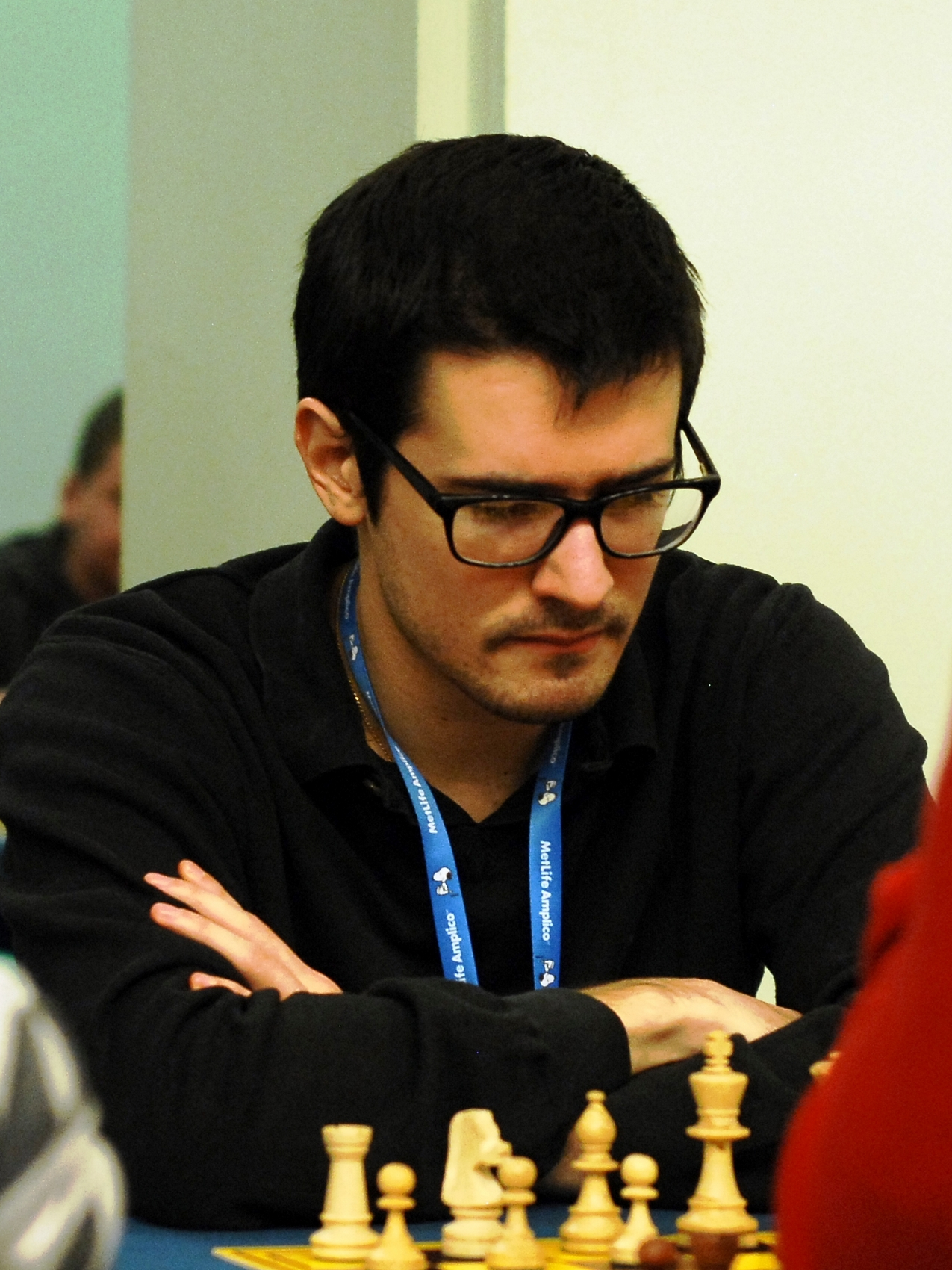 GM François Fargère, European Rapid Chess Championship, Warsaw 2012.